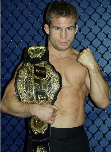 Sean Sherk - American Mixed Martial Arts Fighter